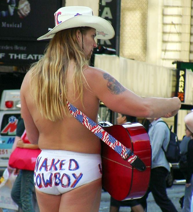 Robert John Burck, better known as the Naked Cowboy, is a New York City street performer and prominent fixture of Times Square.Naked Cowboy in Times Square